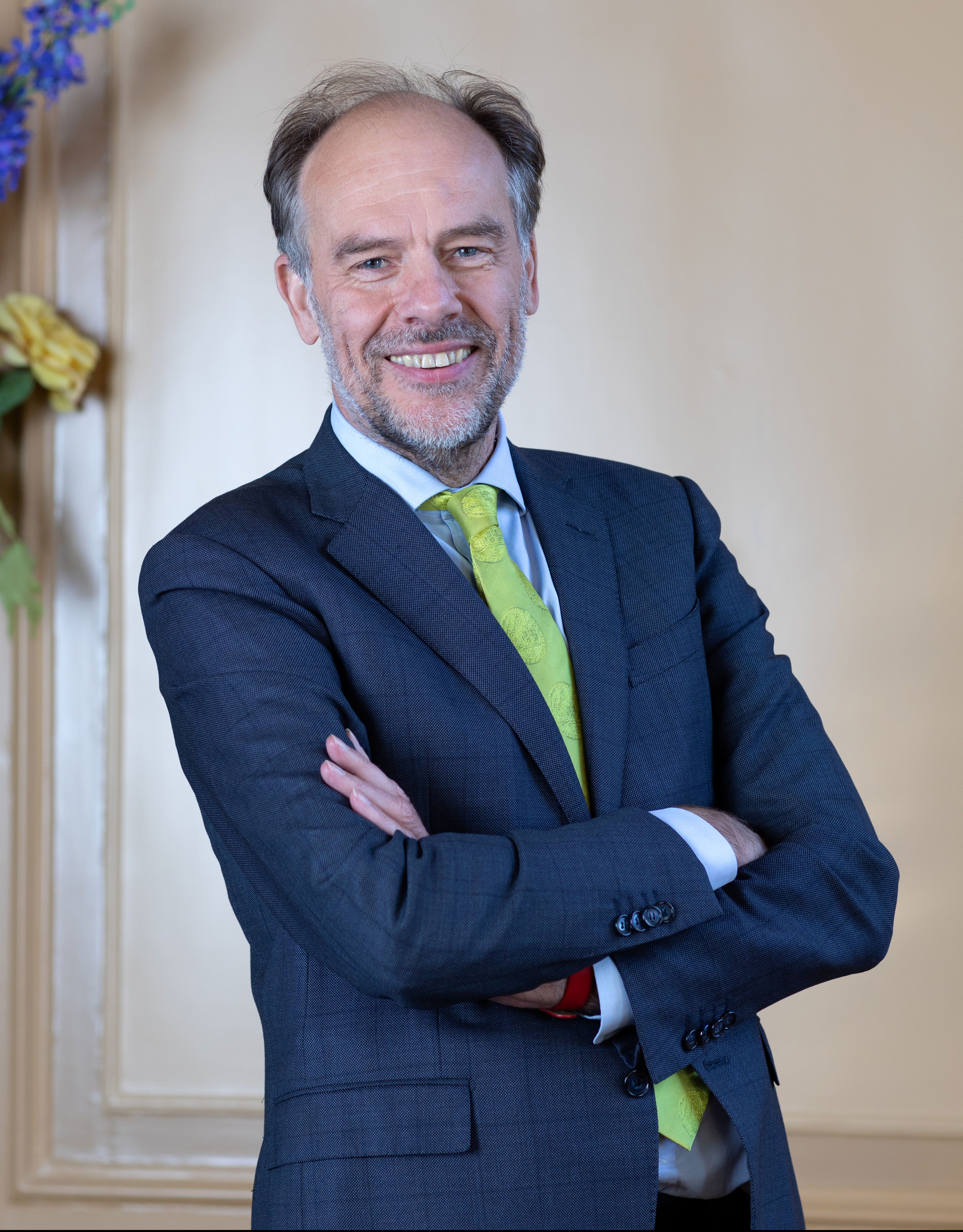 Portrait of Prof. Carel Stolker